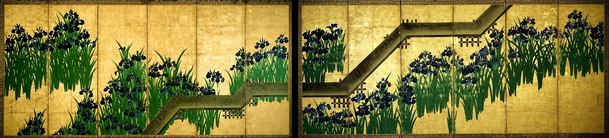 Yatsuhashi-zu Byōbu by Kōrin Ogata